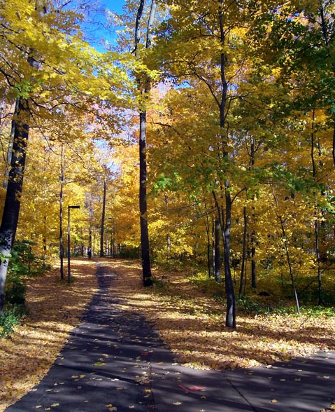 Michigan State University's campus is heavily forested. This trail runs behind several residence halls, including Owen Hall, McDonel Hall, and Holmes Hall. Better known to students as the "Rape Trail".